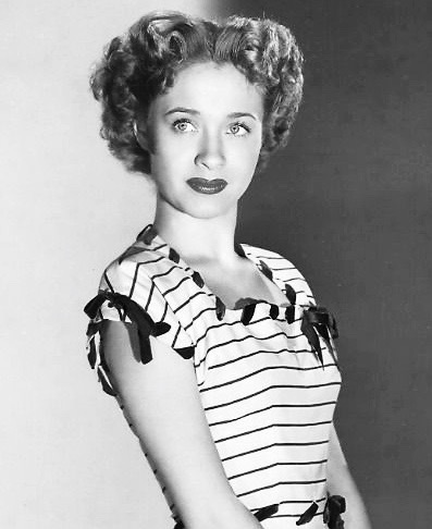 Jane Powell in a publicity headshot for A Date with Judy